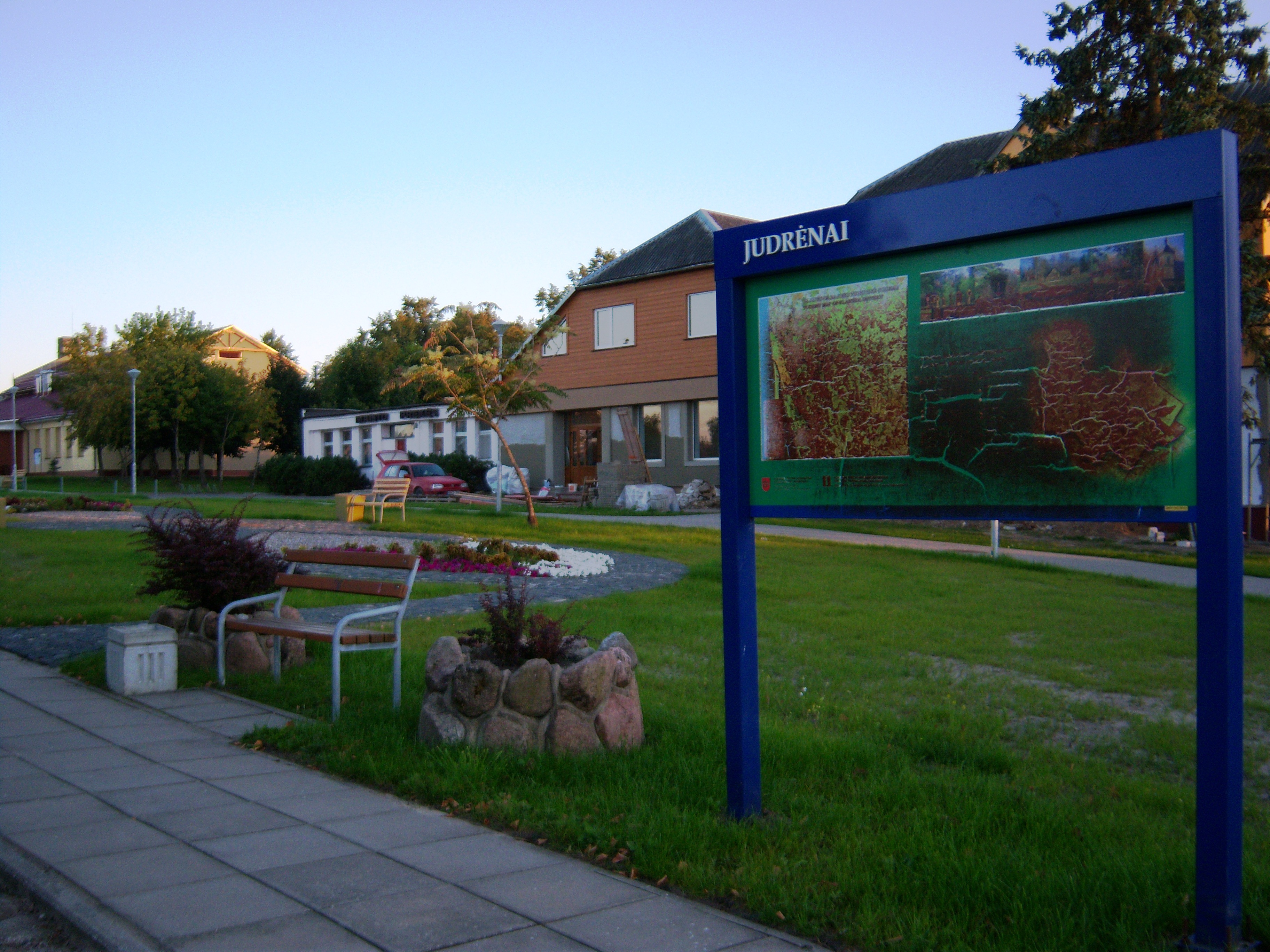 Judrėnai, Klaipėda District. Lithuania